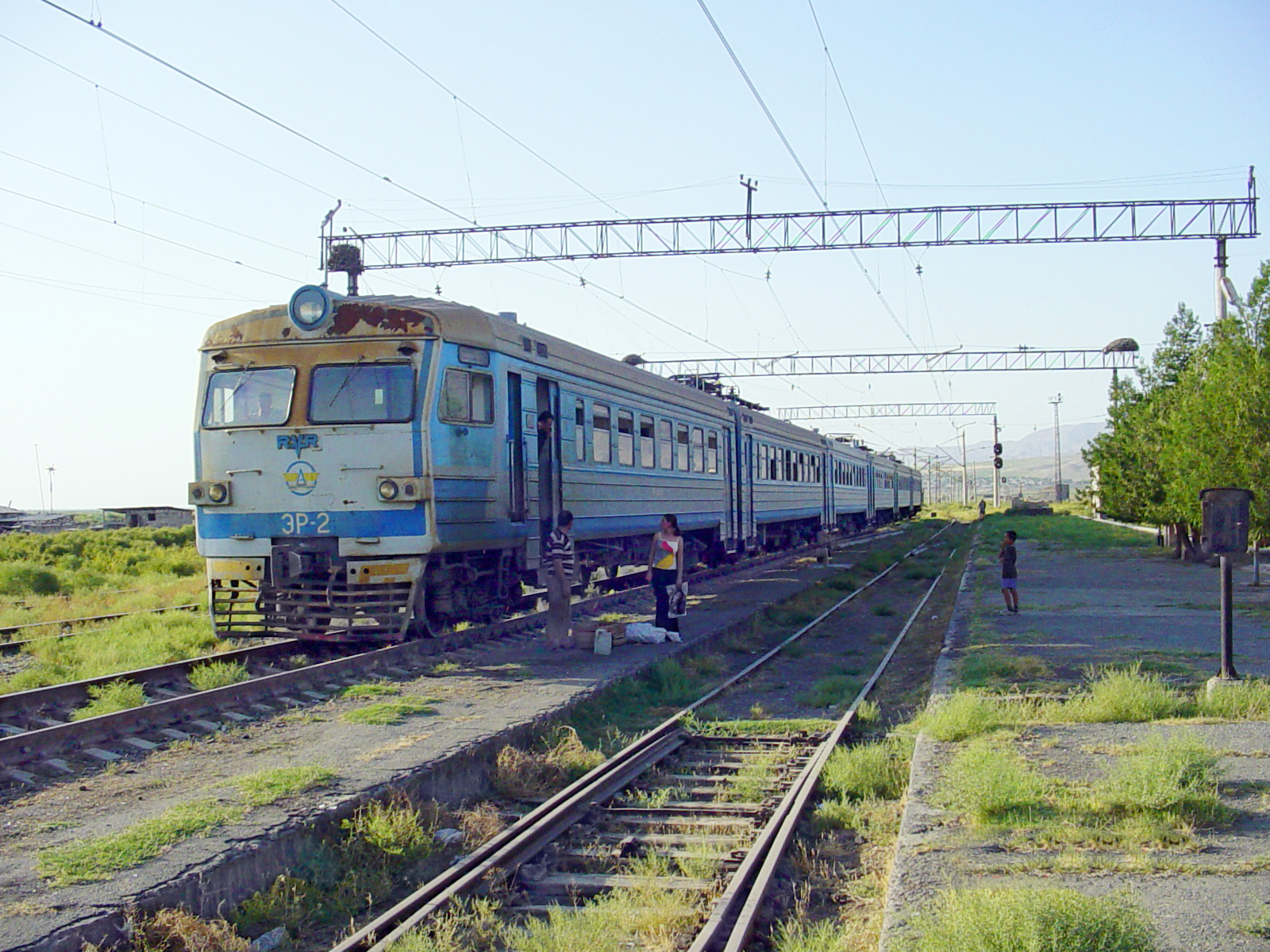 Commuter train in Yeraskh, Armenia, after arrival from Yerevan. Yeraskh is the last Armenian station before the border with Nakhichevan Region of Azerbaijan. Due to hostility between these two countries, the border is closed and no trains are allowed to cross it. This line, the only direct connection between the former USSR and Iran, is now almost out of use.